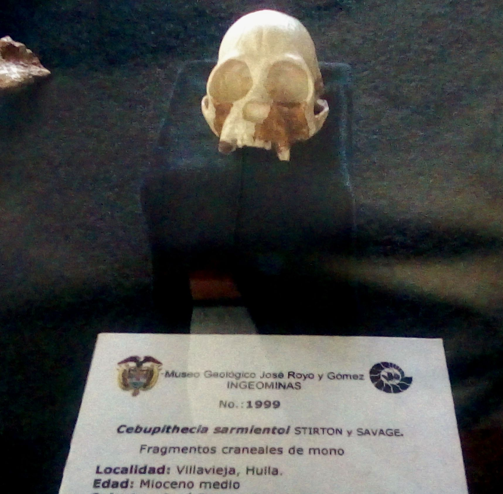 Reconstructed skull of Cebupithecia sarmientoi. Museo Geológico José royo y Gómez, Bogotá.